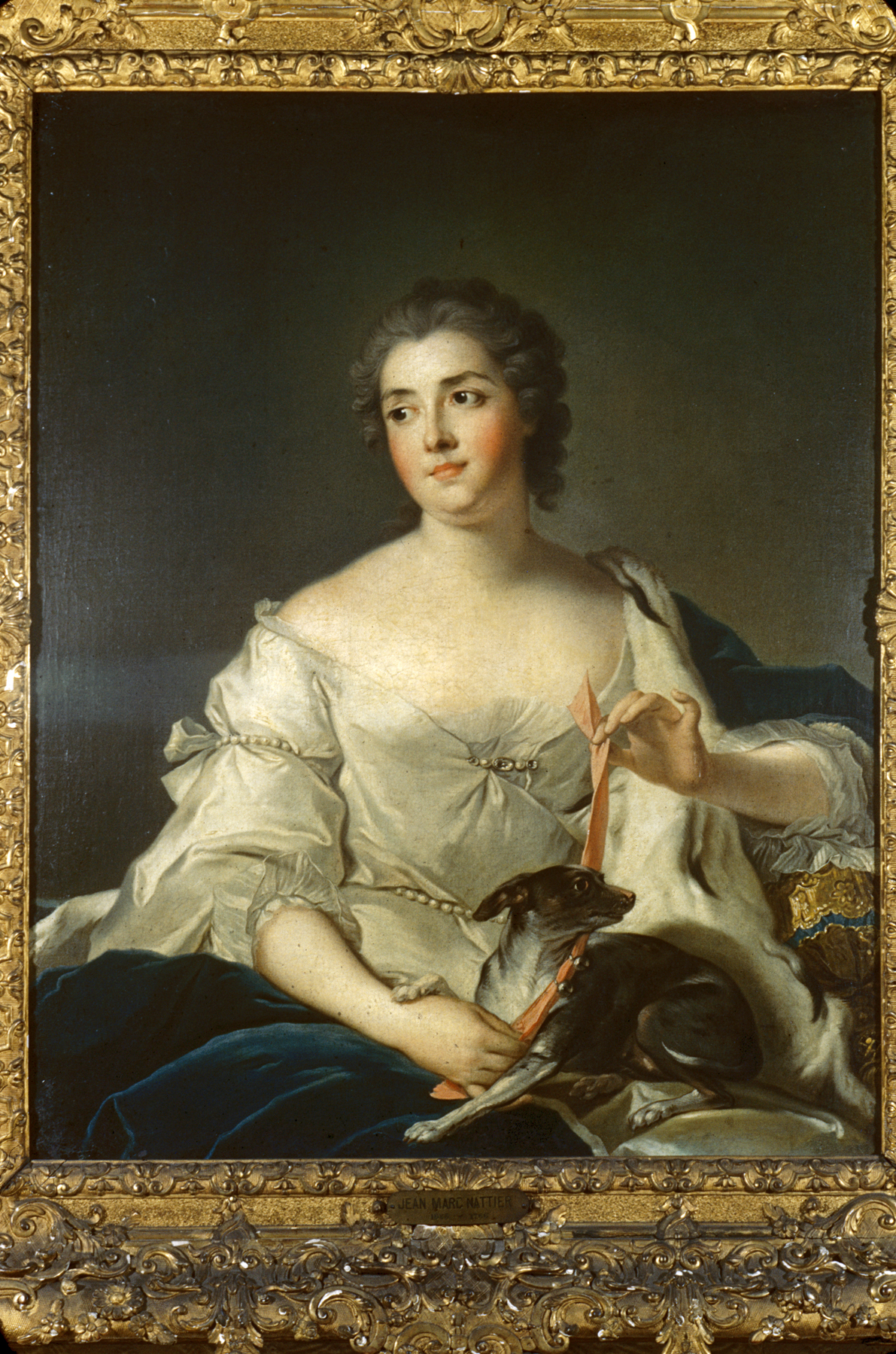 The elegant works of Jean-Marc Nattier exemplify mid 18th-century French portraiture. Although he was admitted to the Académie Royale (Royal Academy) as a painter of historical subjects (then ranked as the highest category of painting), Nattier specialized in the less prestigious genre of portraiture. Though he worked at the court of Louis XV, he broke with the baroque tradition of grandiose portraits. Instead, he produced naturalistic paintings of Queen Marie Leszczynska and her daughters, as well as Mme. de Pompadour and other members of the nobility. The subject of this light-hearted, informal portrait is Suzanne-Marguerite Fyot de La Marche (1731-1784), the young wife of Marc-René de Voyer de Paulmy d'Argenson (1722–1787), marquis of Paulmy, who was minister of war under Louis XV and French ambassador to Poland.